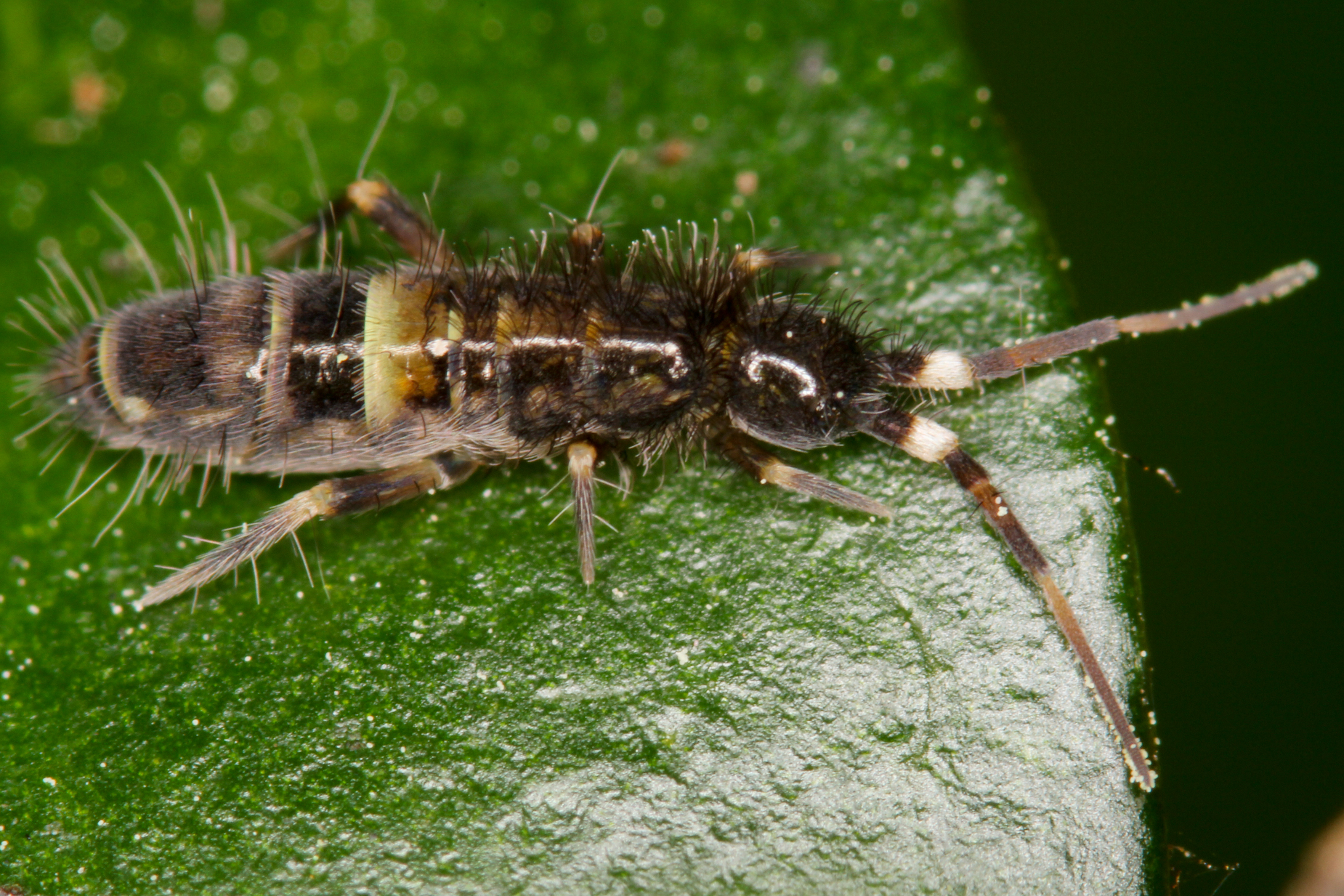 Orchesella cincta from England.